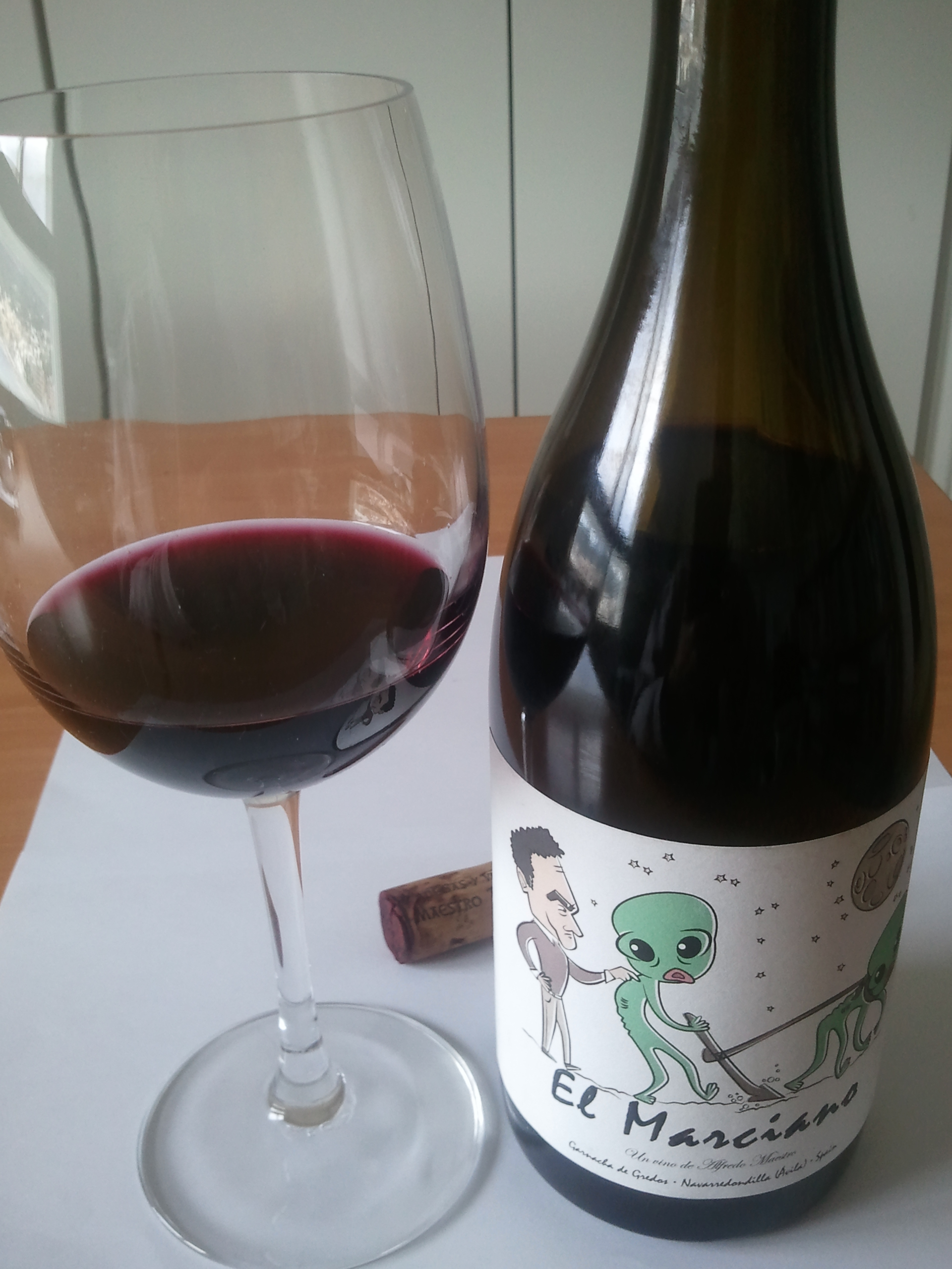 Grenache of Gredos 100%, El Marciano, Navarredondilla, Ávila province, Spain.